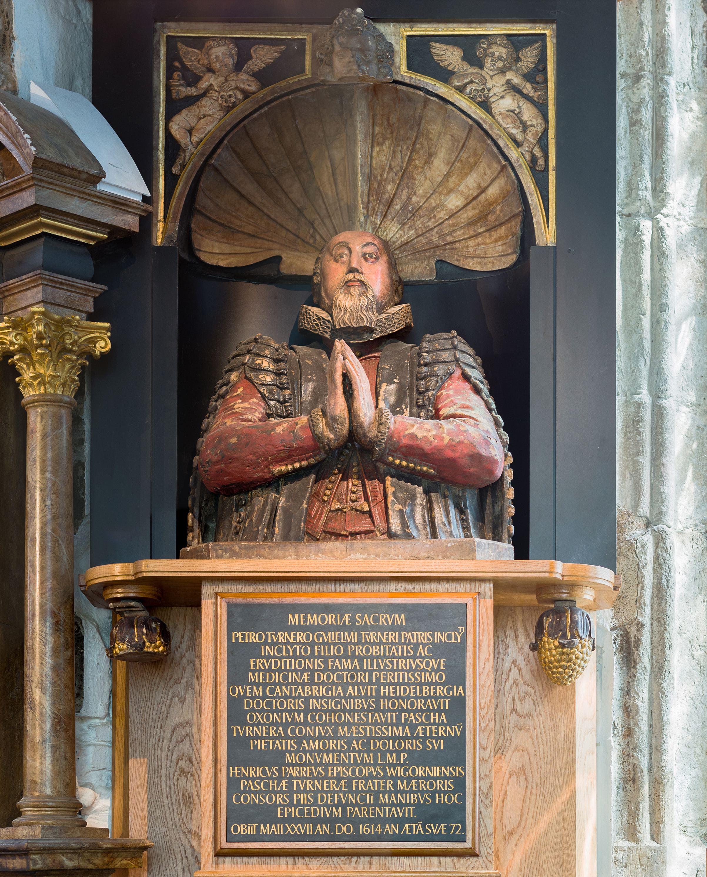 The bust of Peter Turner who was buried in the St Olave Hart St Church in 1614. The bust went missing following bombing of the church in World War II. It was discovered at an art auction in 2010, and following negotiations, was returned to St Olave Hart St in 2012.